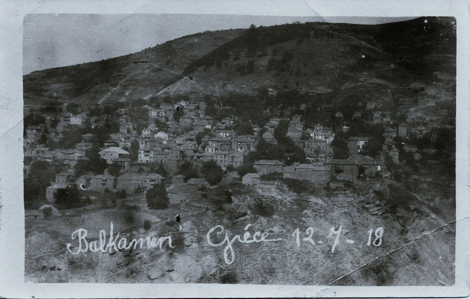 Bel Kamen Panorama